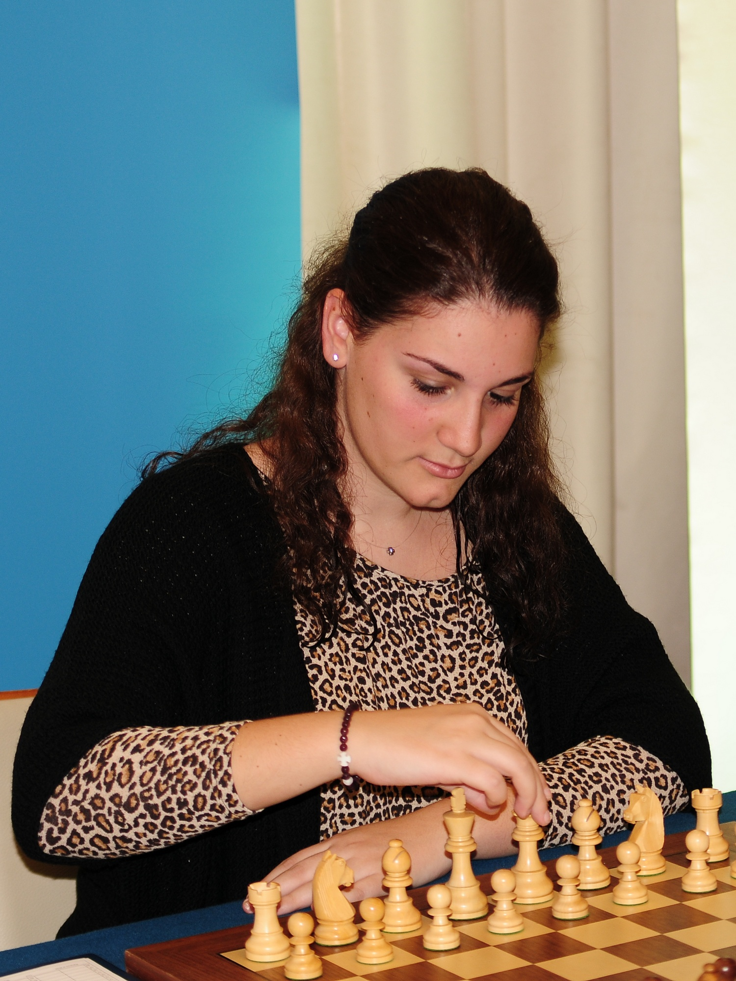 WIM Ekaterini Pavlidou, European Chess Team Championship Warsaw 2013